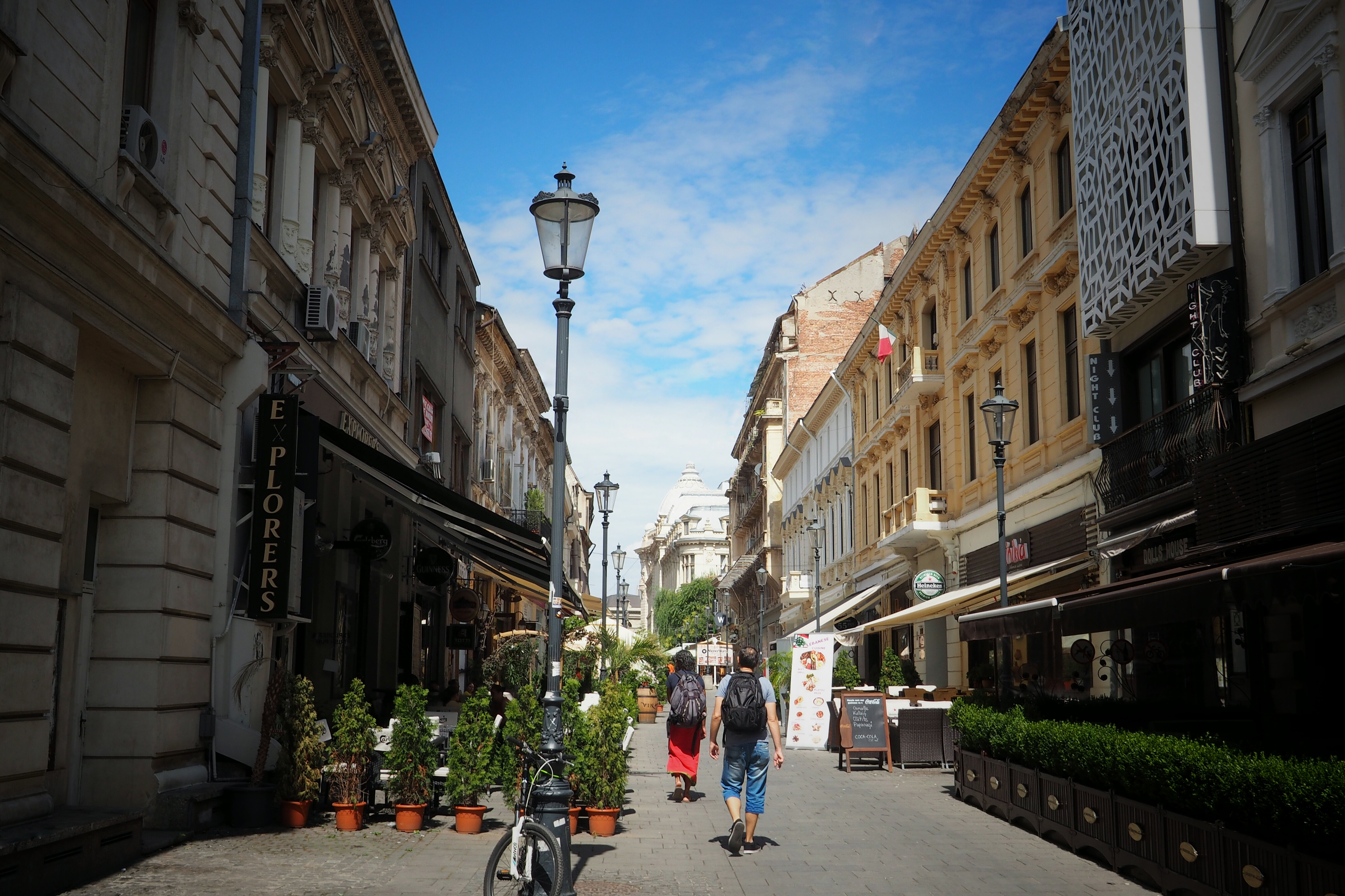 Bucharest, Romania Find out more about Bucharest: DiscoverBucharest